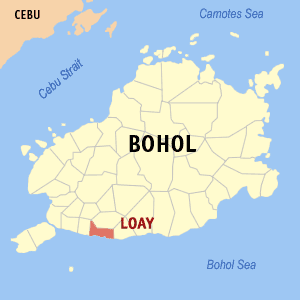 Map of Bohol showing the location of Loay